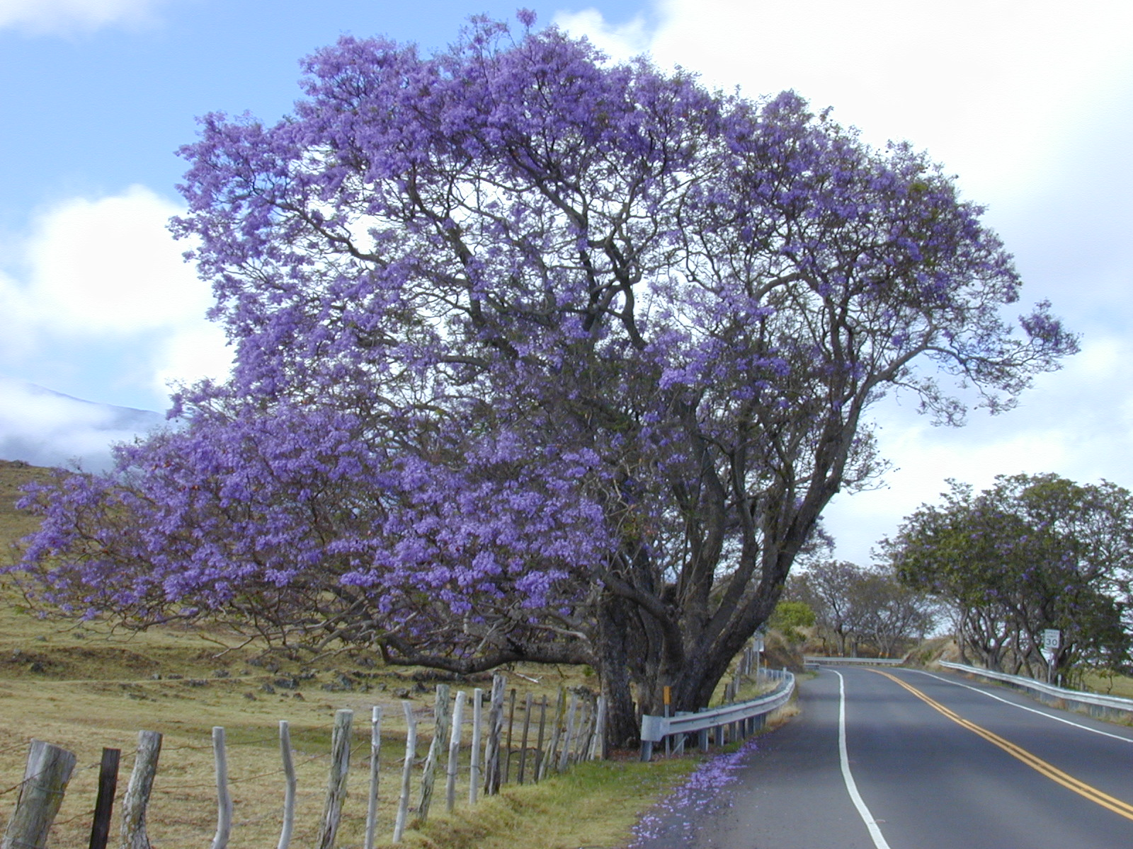 Jacaranda mimosifolia (habit). Location: Maui, Kula